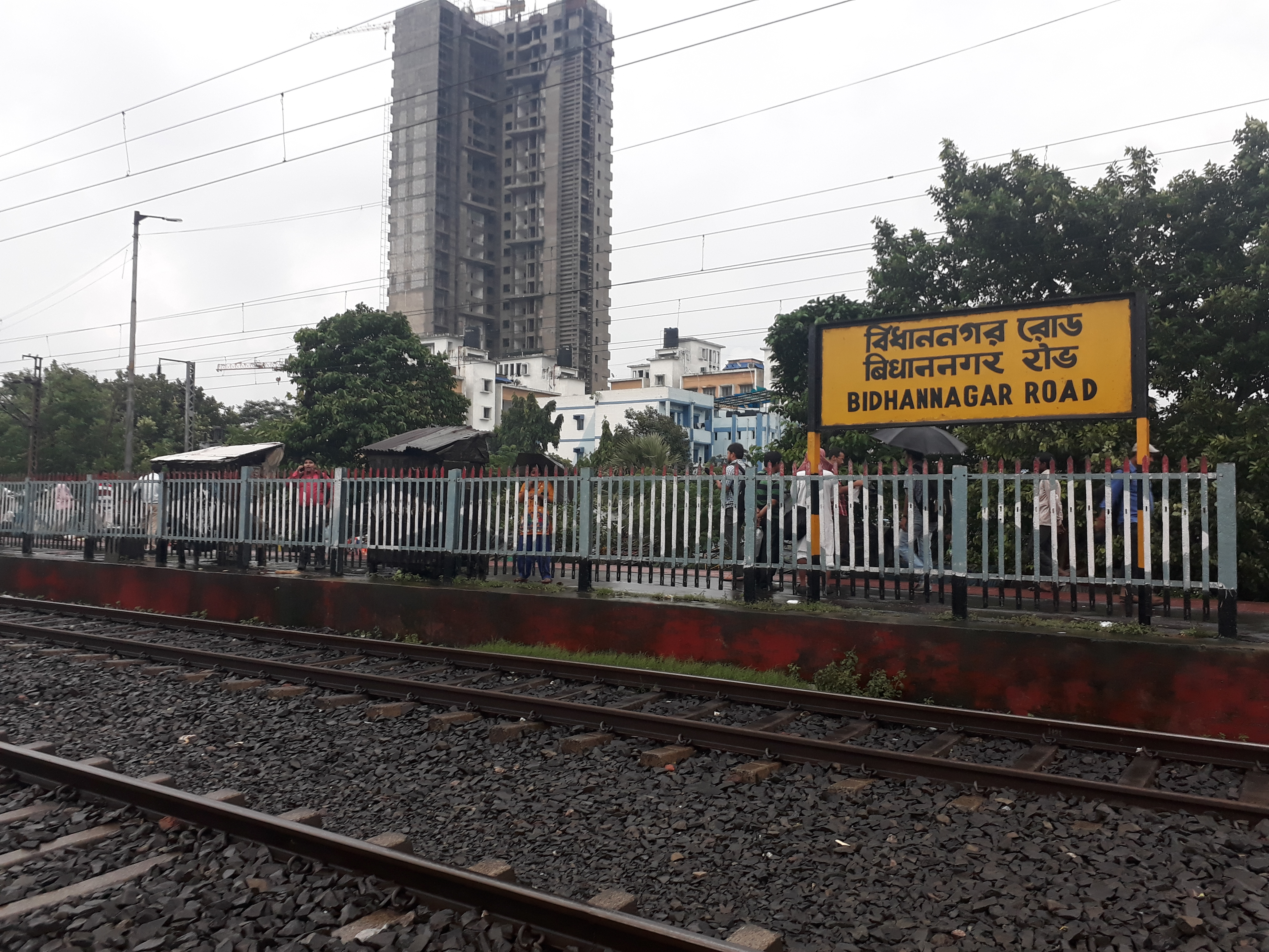 Bidhannagar Railway station, West Bengal